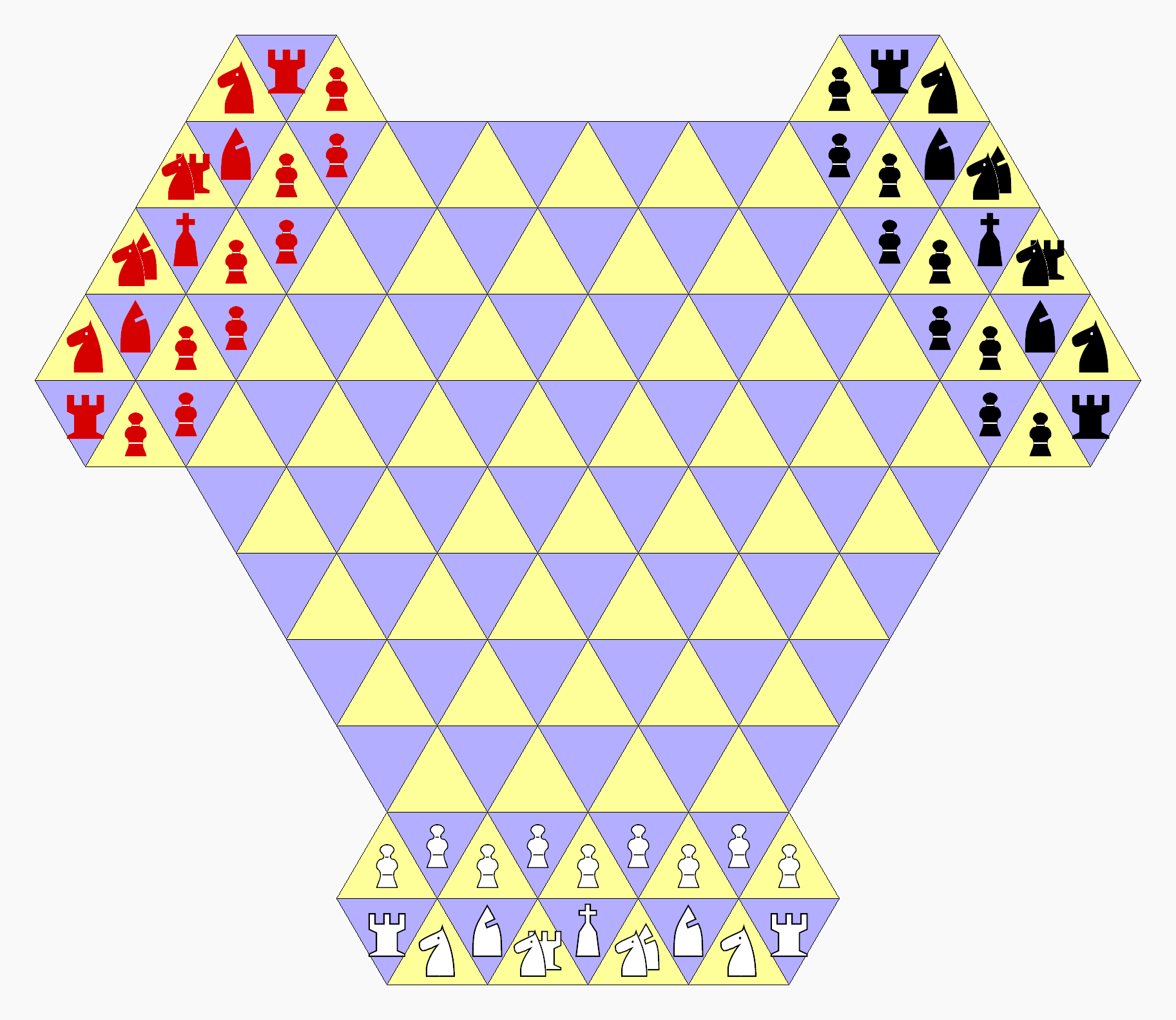 Icons from Chess Utrecht font (Hans Bodlaender); done in MS PAINT